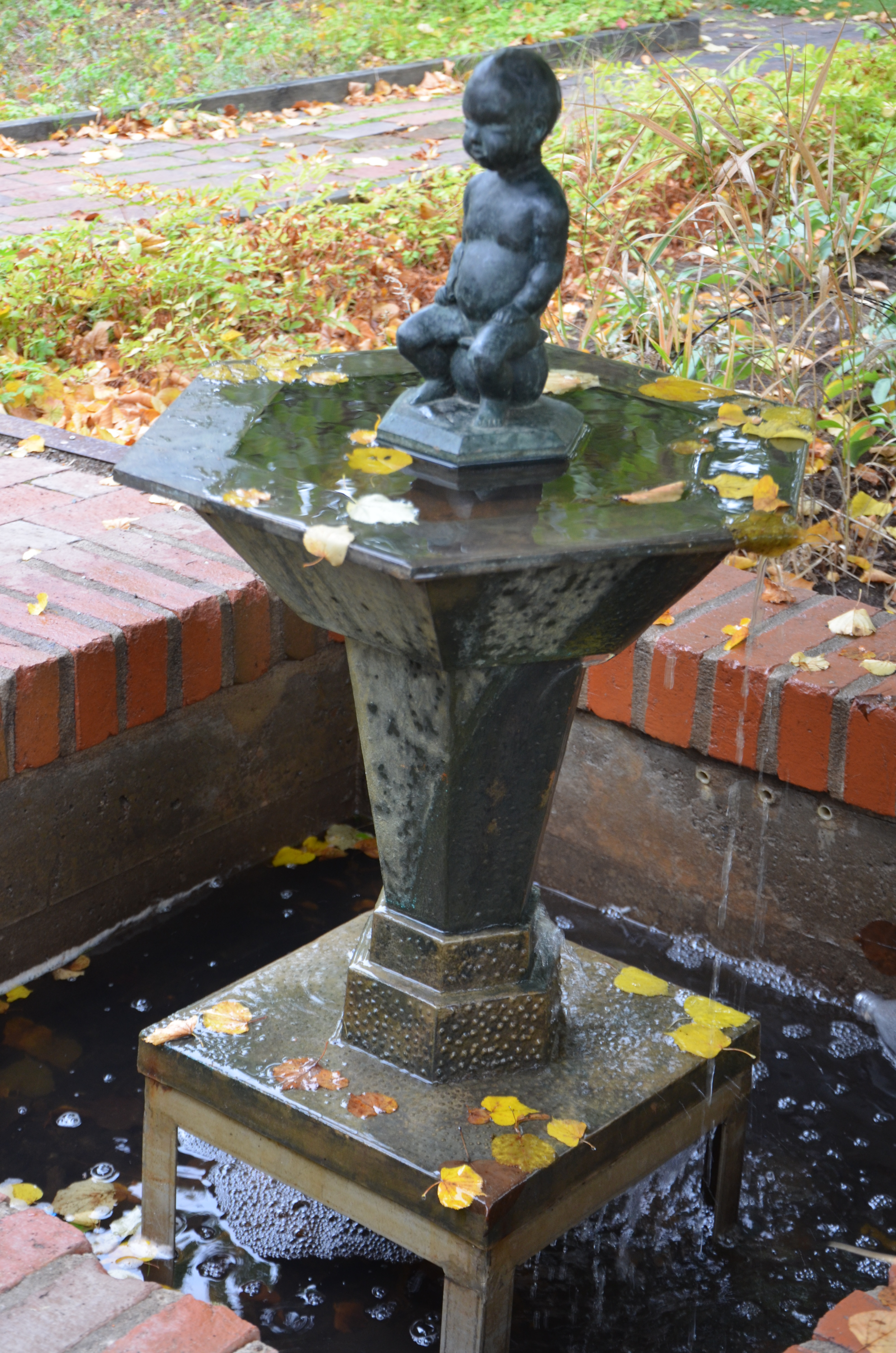 Kerub av Anna Molander i Hällefors It is not clear whether freedom of panorama applies to this image. This is a depiction of a work of art in Sweden. The depicted work is believed to be protected by copyright. According to Article 24 of the Swedish copyright act, "Works of art may be depicted if they are permanently placed on or at a public place outdoors. Buildings may be freely depicted." It has been widely accepted that this provision made distribution of depictions such as this one legal. On 4 April 2016, however, the Supreme Court of Sweden issued a statement that Article 24 does not extend to publication in online repositories, and on 6 July 2017, a lower court ruled that linking to depictions of copyrighted artworks hosted on Commons constitutes copyright infringement. See Commons:Freedom of panorama#Sweden for more information. The implications of these decisions on Commons' ability to continue to distribute this and other depictions like it are currently under analysis. Reusing or linking to this file may have legal consequences. You are solely responsible for ensuring that you do not infringe the copyright belonging to someone else. See our general disclaimer for more information.